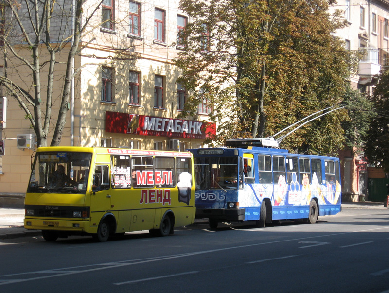 Transport in Ternopil, Ukraine.